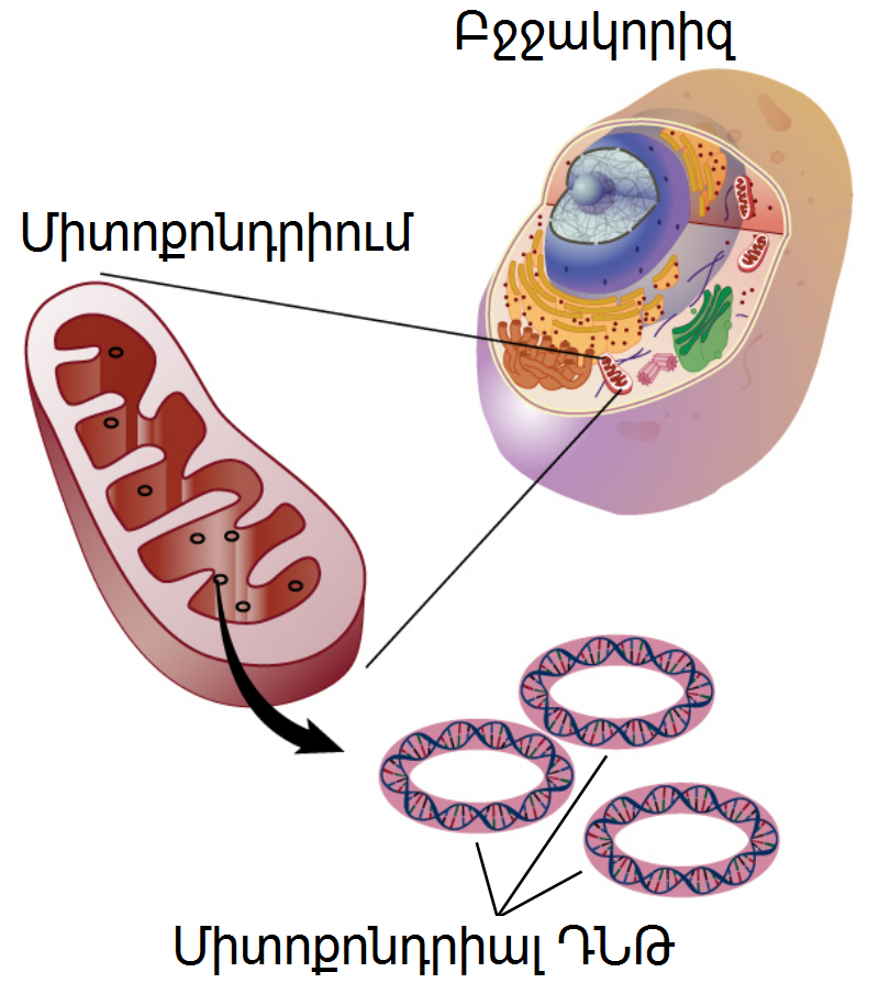 Mitochondrial dna